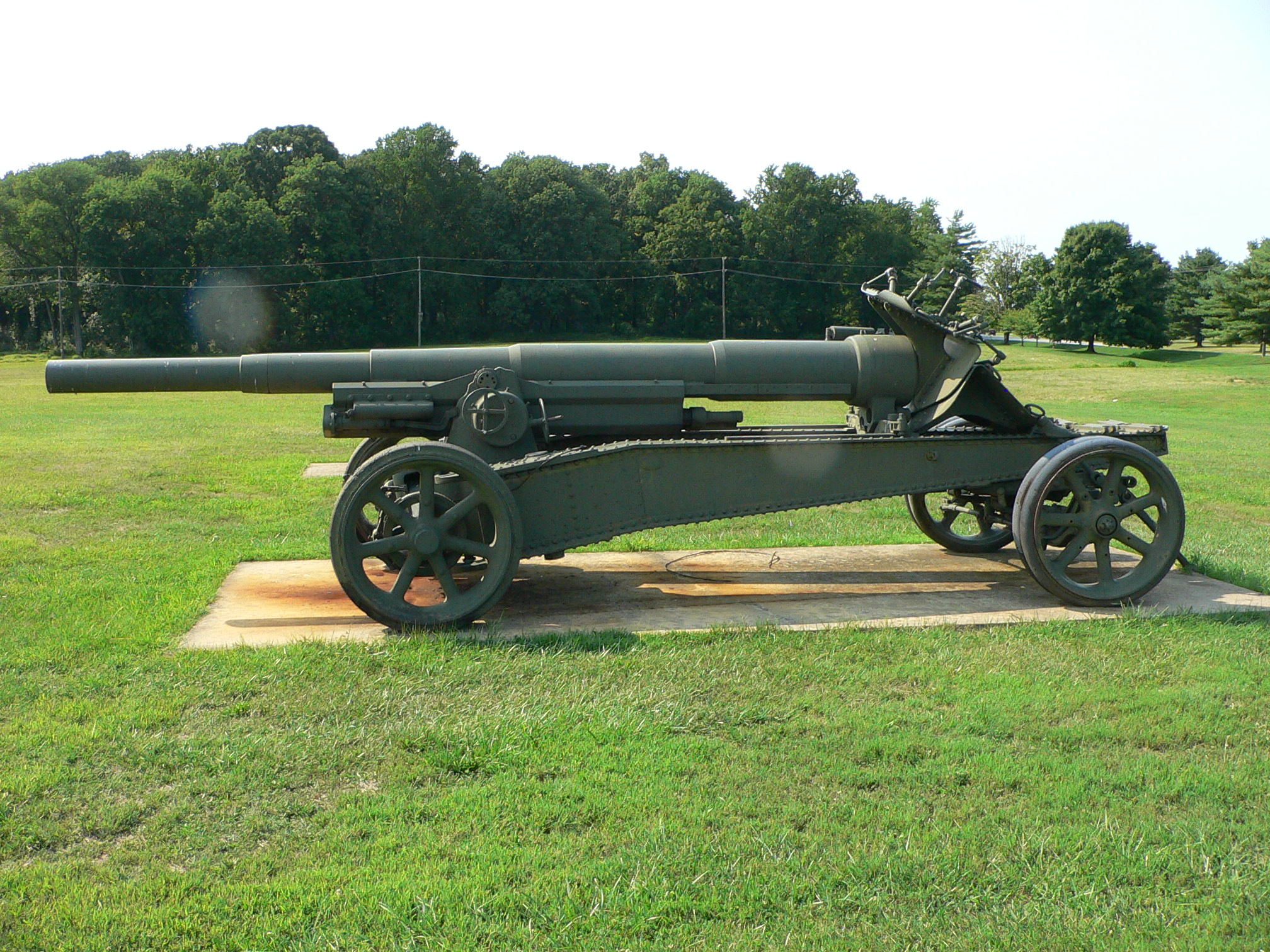 Picture taken by myself, Mark Pellegrini, at the United States Army Ordnance Museum (Aberdeen Proving Ground, MD) on August 14, 2007.